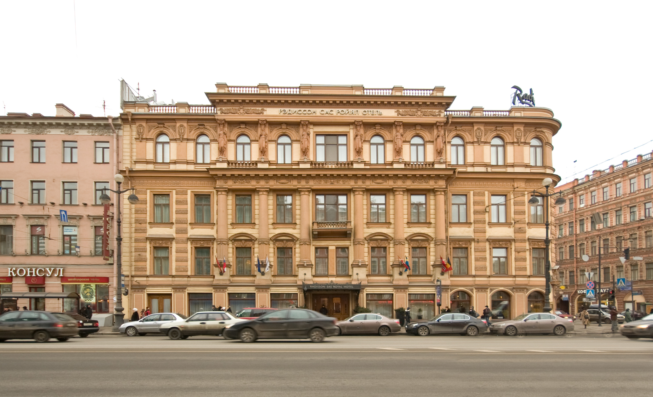 Nevsky, 49/Vladimirsky, 2 (St.-Petersburg). The house of Ushakov, build at the end of XVIII-beginning of XIX century; rebuild in 1880-1881 by Pavel Suzor